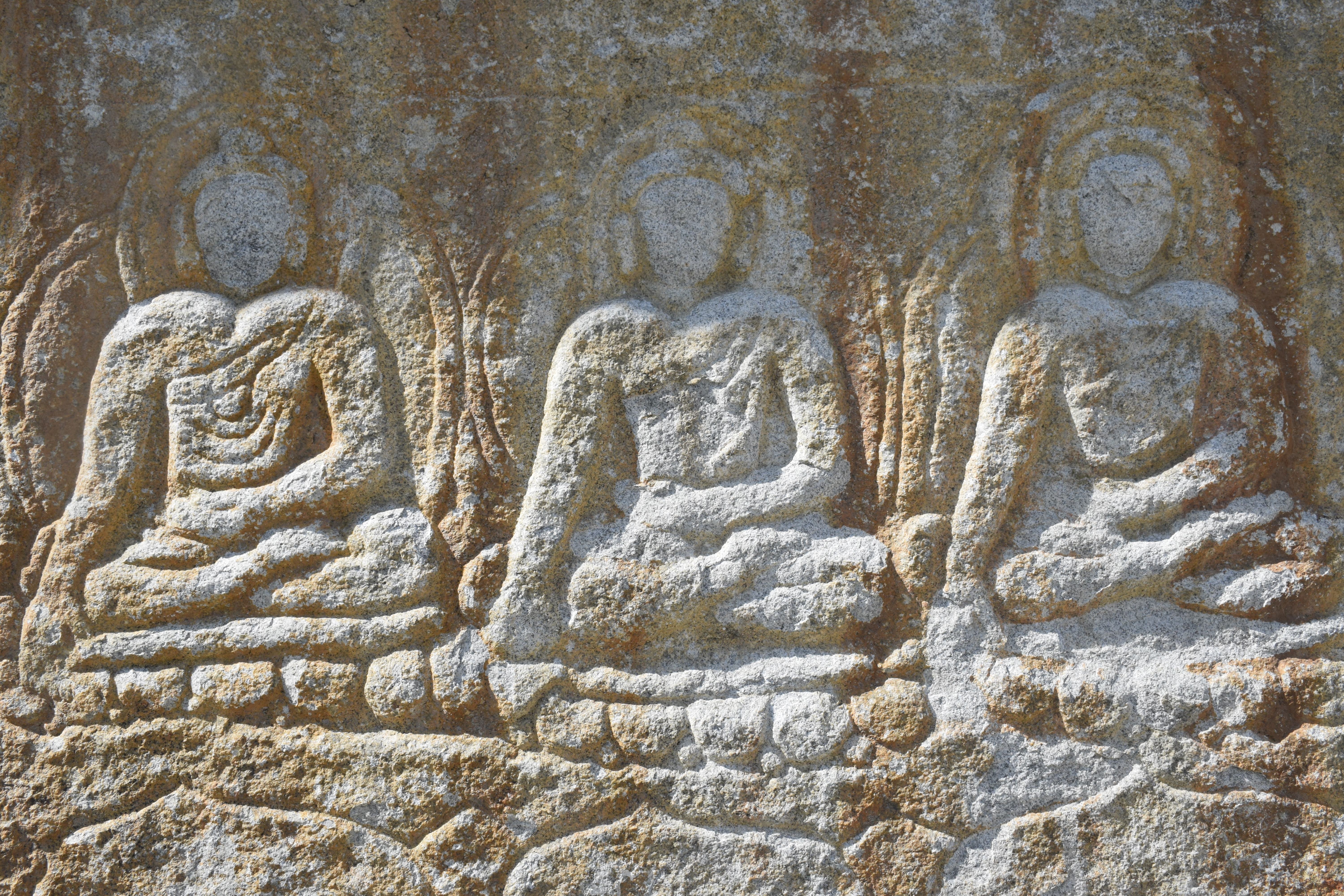 Manthal Rock (Buddhist inscriptions) This is a photo of a monument in Pakistan identified as the GB-23